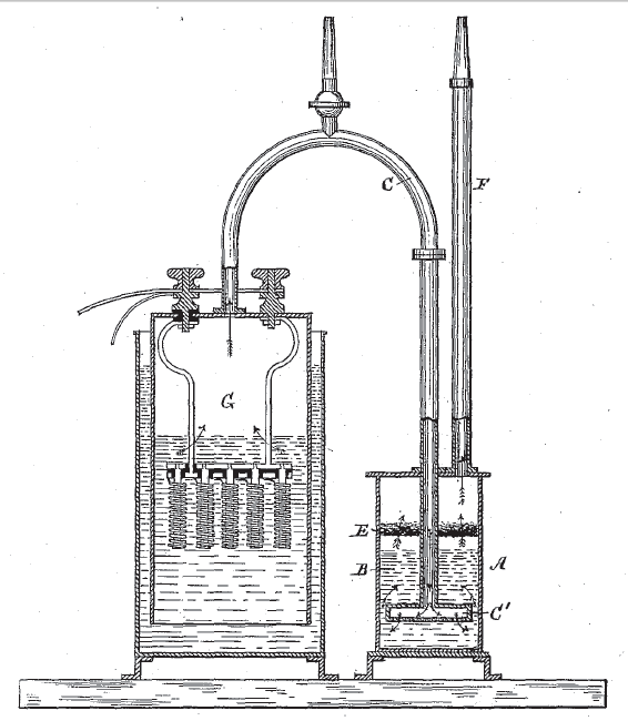 Patent US308276, Process of Manufacturing Illuminating Gas, Patented Nov 18 1884